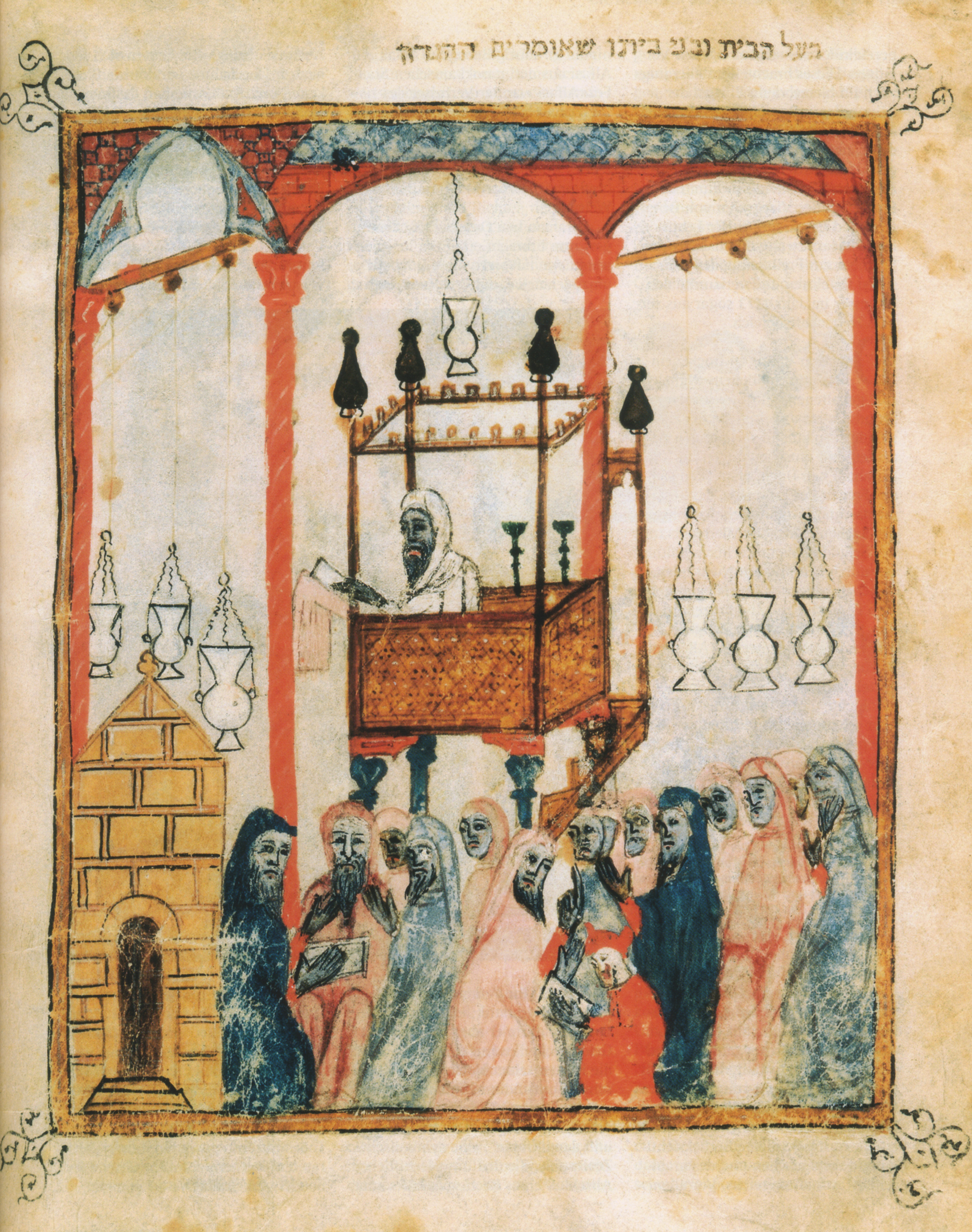 identical to Just a better resolution.